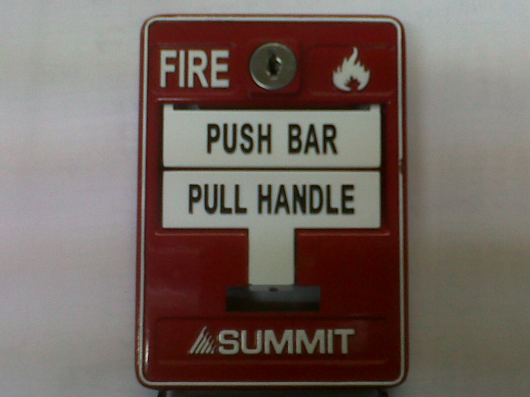 manual call point American type.